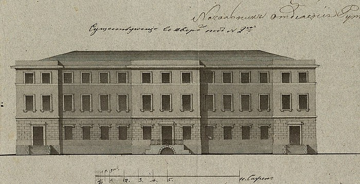 Kamergersky Lane 5/7-4